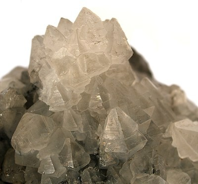 Witherite Locality: Brownley Hill Mine (Bloomsberry Horse Level), Nenthead, Alston Moor District, North Pennines, North and Western Region (Cumberland), Cumbria, England, UK (Locality at ) Size: 6.5 x 4.8 x 4.2 cm. A superb piece clearly from the very oldest finds here of sharp, translucent, lustrous witherite crystals perched on a galena matrix. From the type locality.